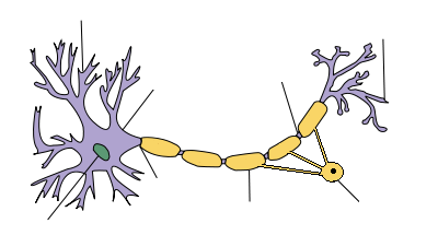 Diagram of neuron with arrows but no labels. Made using FireFox and GIMP from Neuron.svg by Dhp1080.